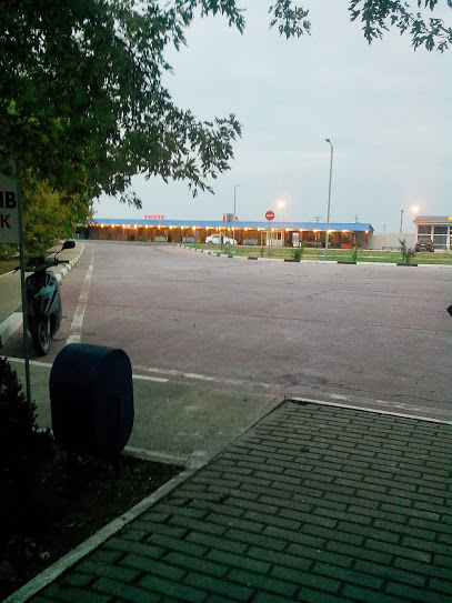 Market near Chonhar, Kherson Oblast, Ukraine